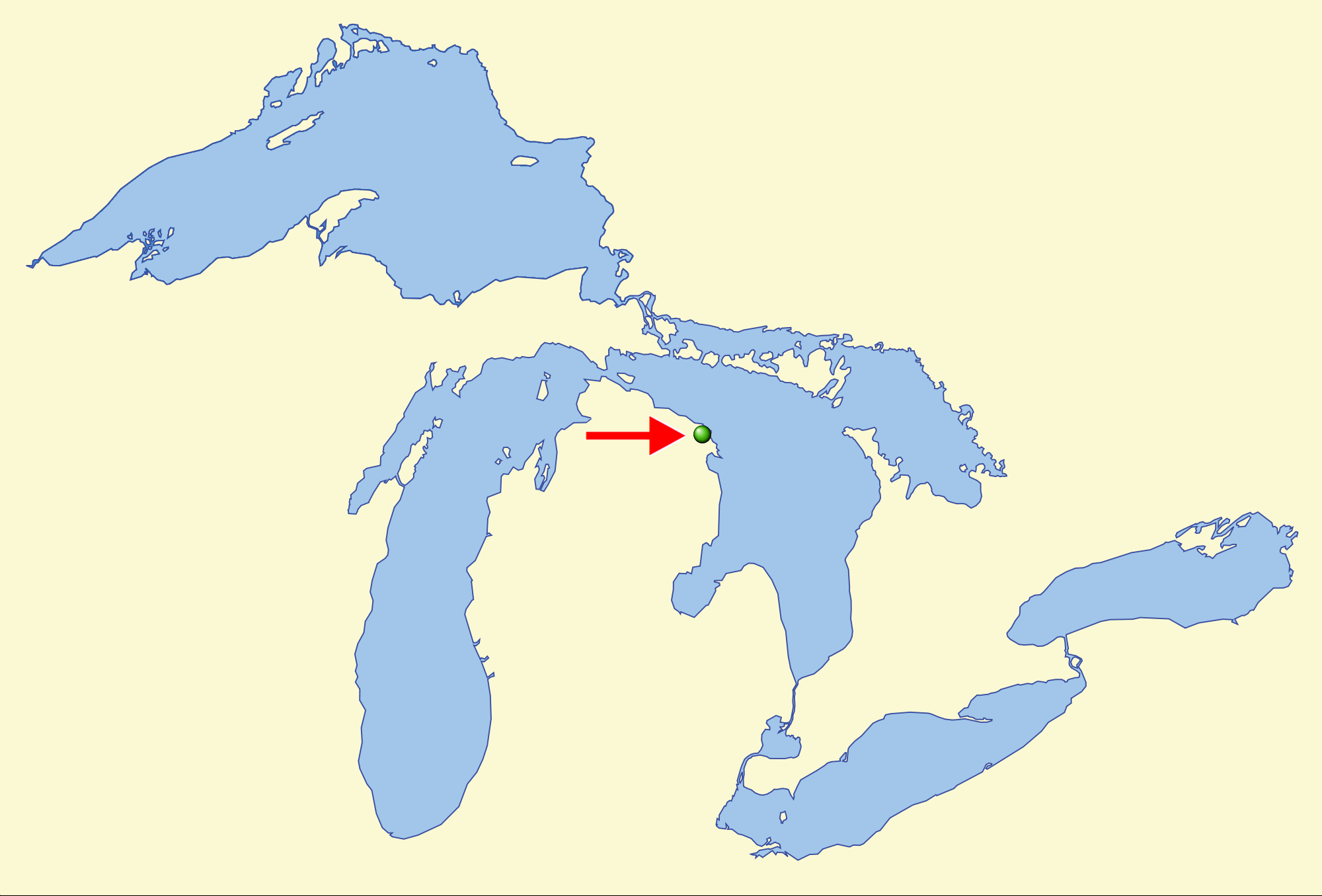 Modified version of the Great Lakes map originally uploaded by User:Phizzy to illustrate the location of the Grand Lake (Michigan) in the Great Lakes system